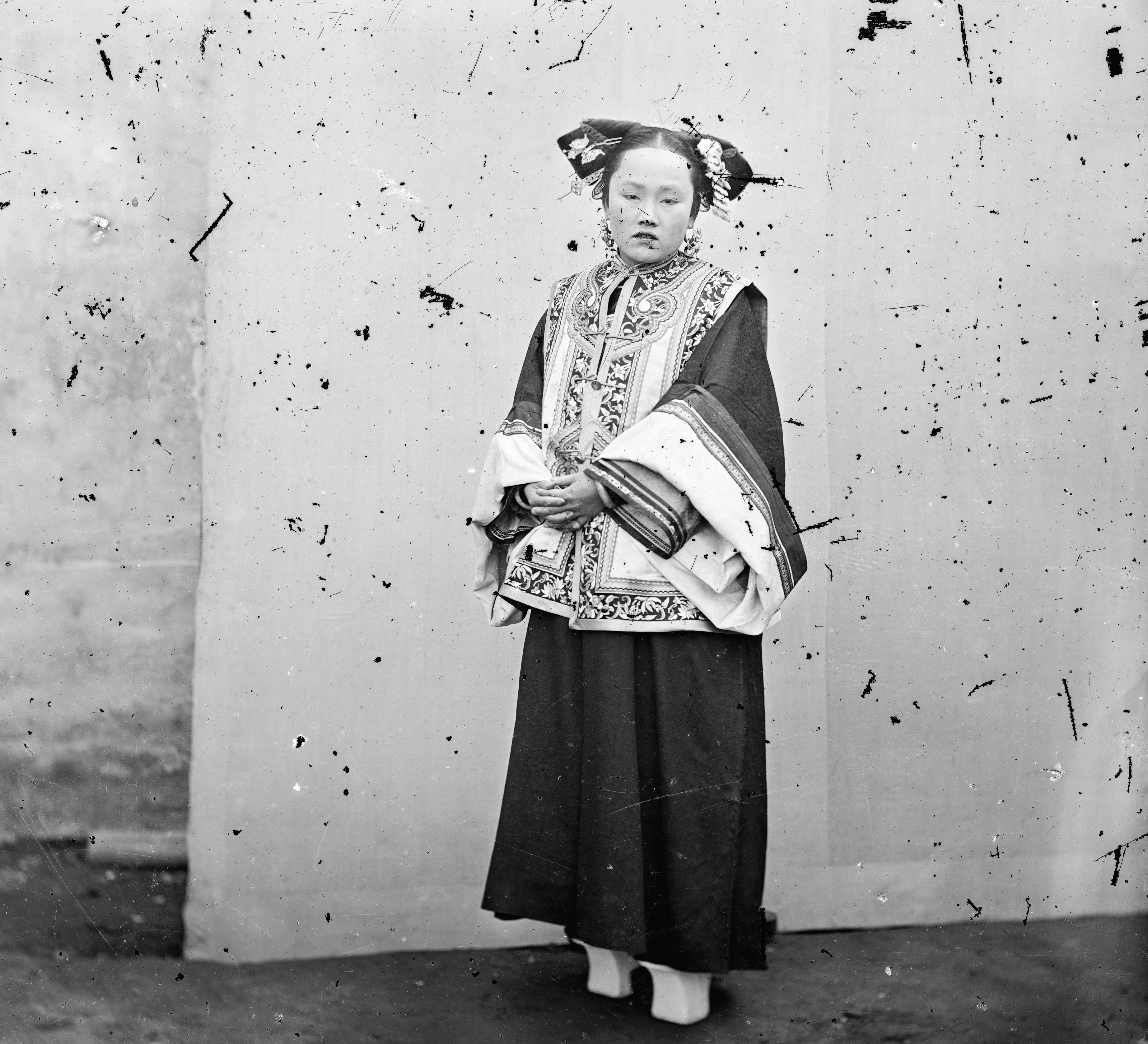 China. Photograph by John Thomson, 1869. Iconographic Collections Keywords: J. Thomson